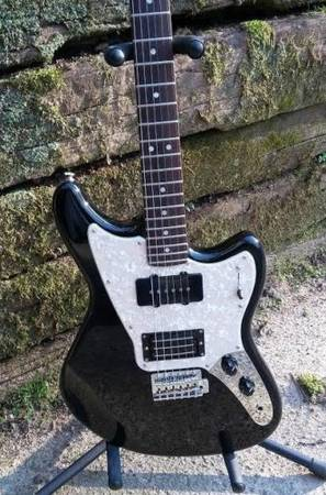 Black and pearloid pickguard